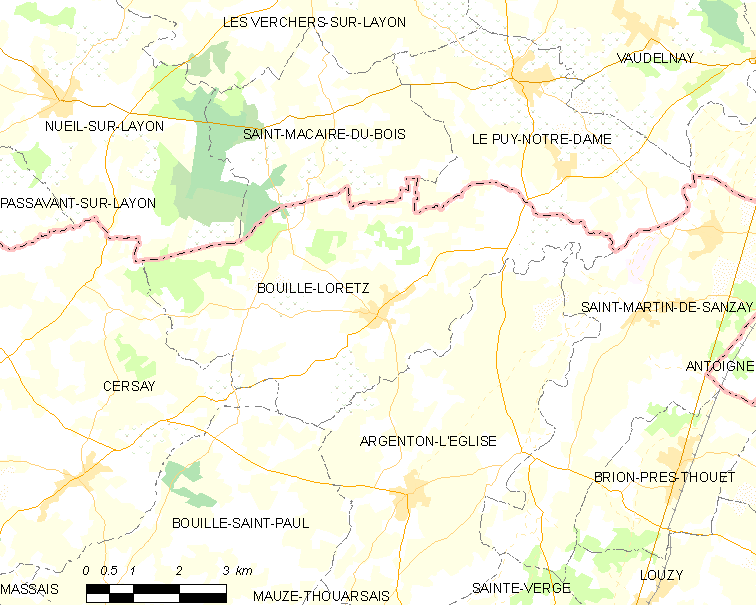 Map of French municipality Bouillé-Loretz